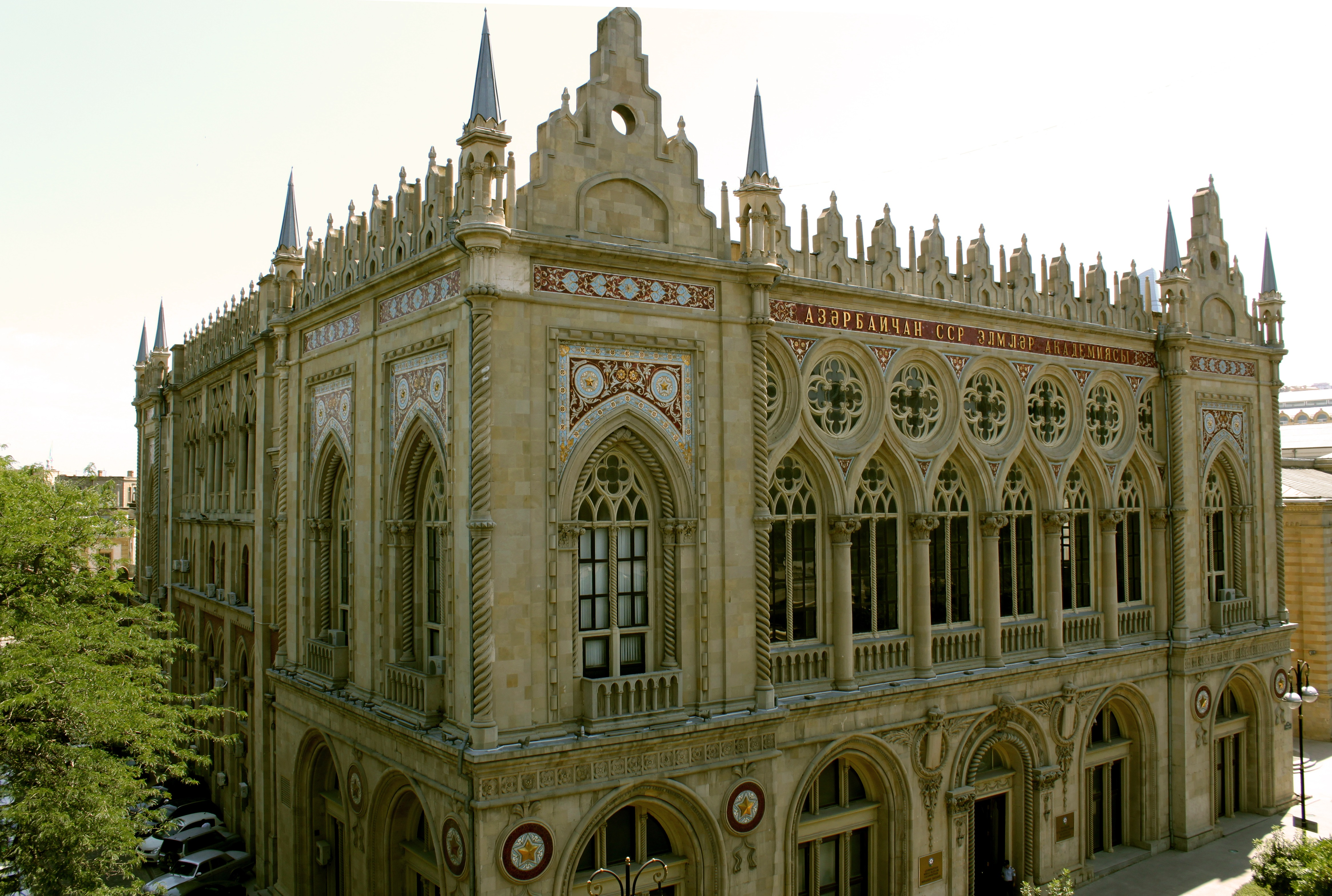 İsmailiyye palace